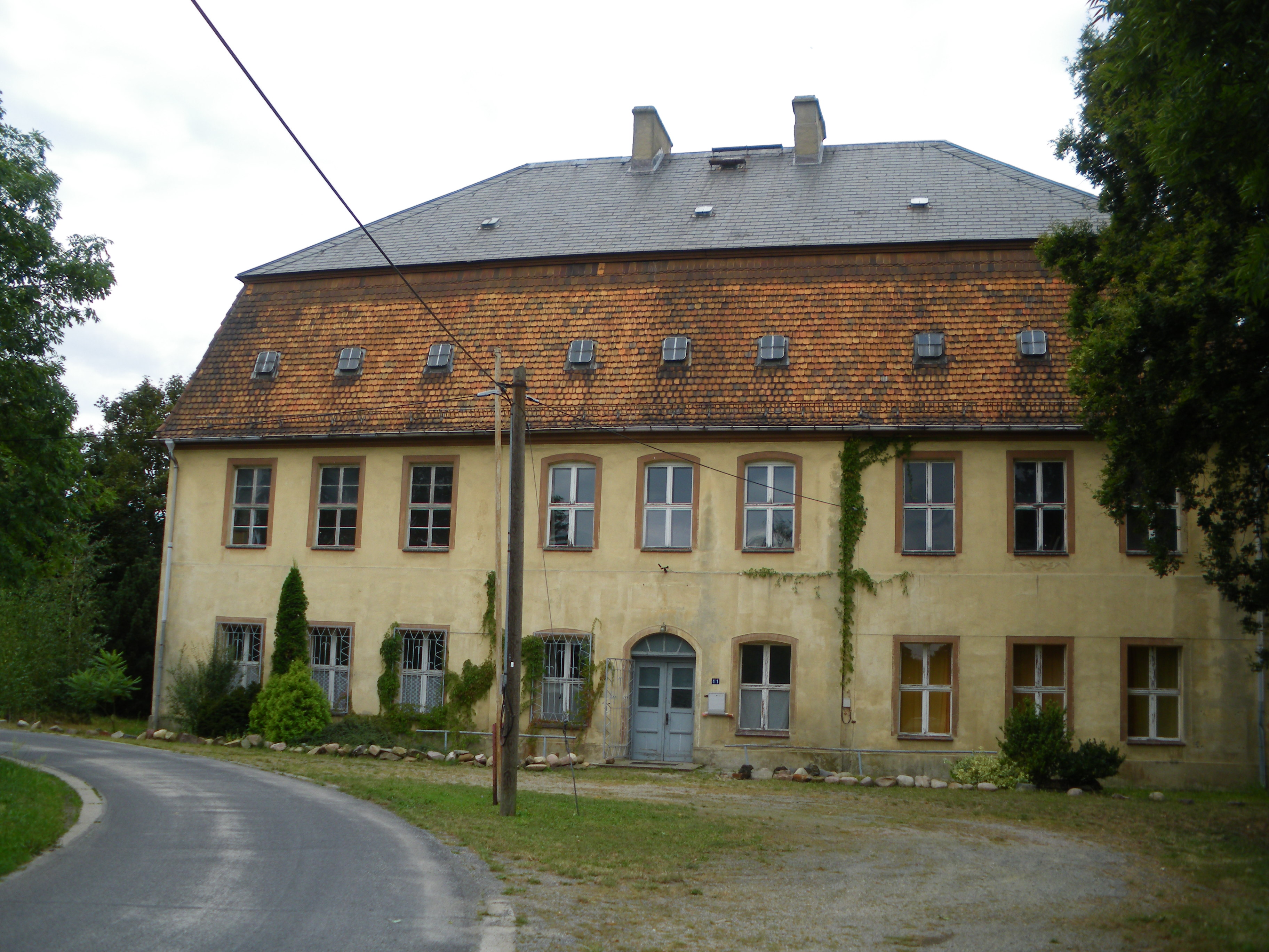 Manor in Mallenchen, Calau, Brandenburg, Germany